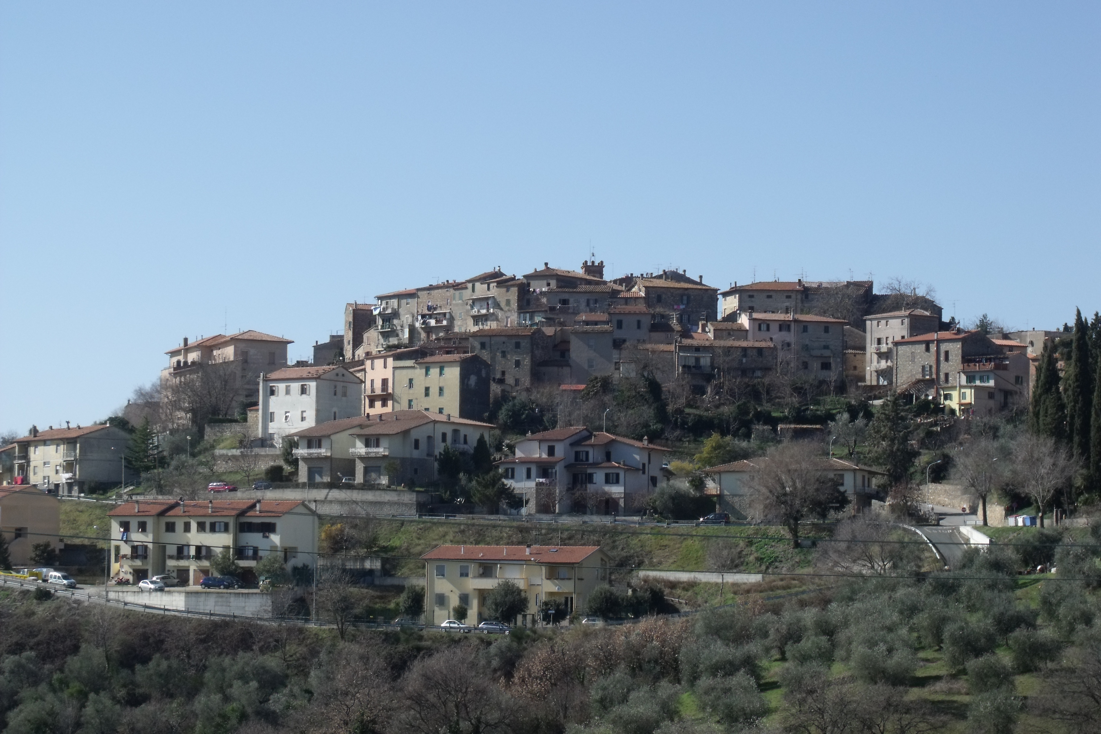 Panorama of Civitella Marittima, Civitella Paganico, Province of Grosseto, Tuscany, Italy